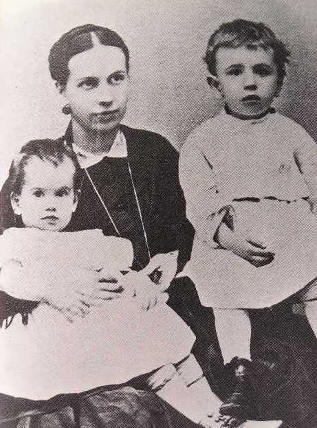 Sofia Tolstaya with her children Sergej and Tatjana